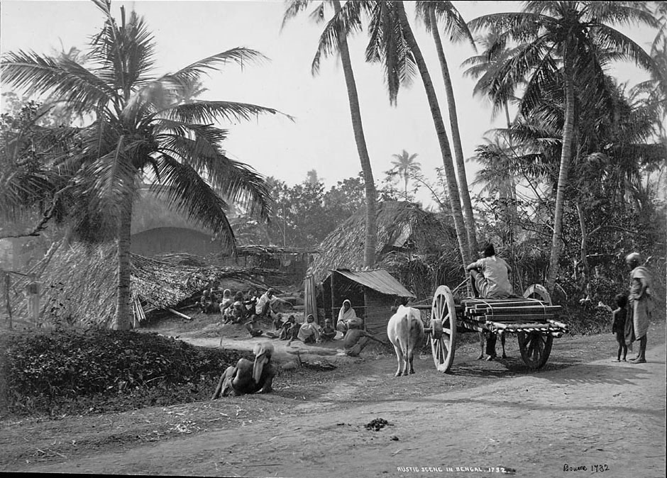 Bengali villagers outside thatch houses, and a bullock cart near roadside.